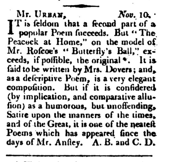 "The Gentlemen's Magazine" Nov. 1807 "The Peacock 'at Home'"